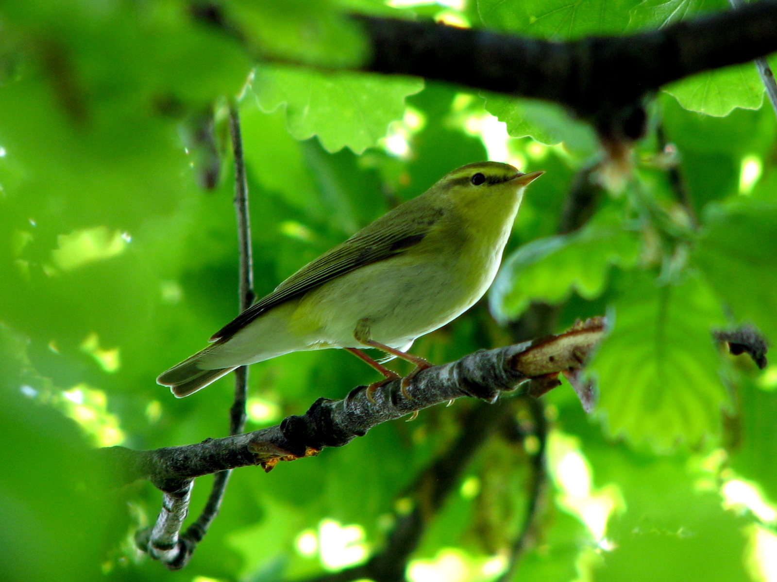 Wood warbler